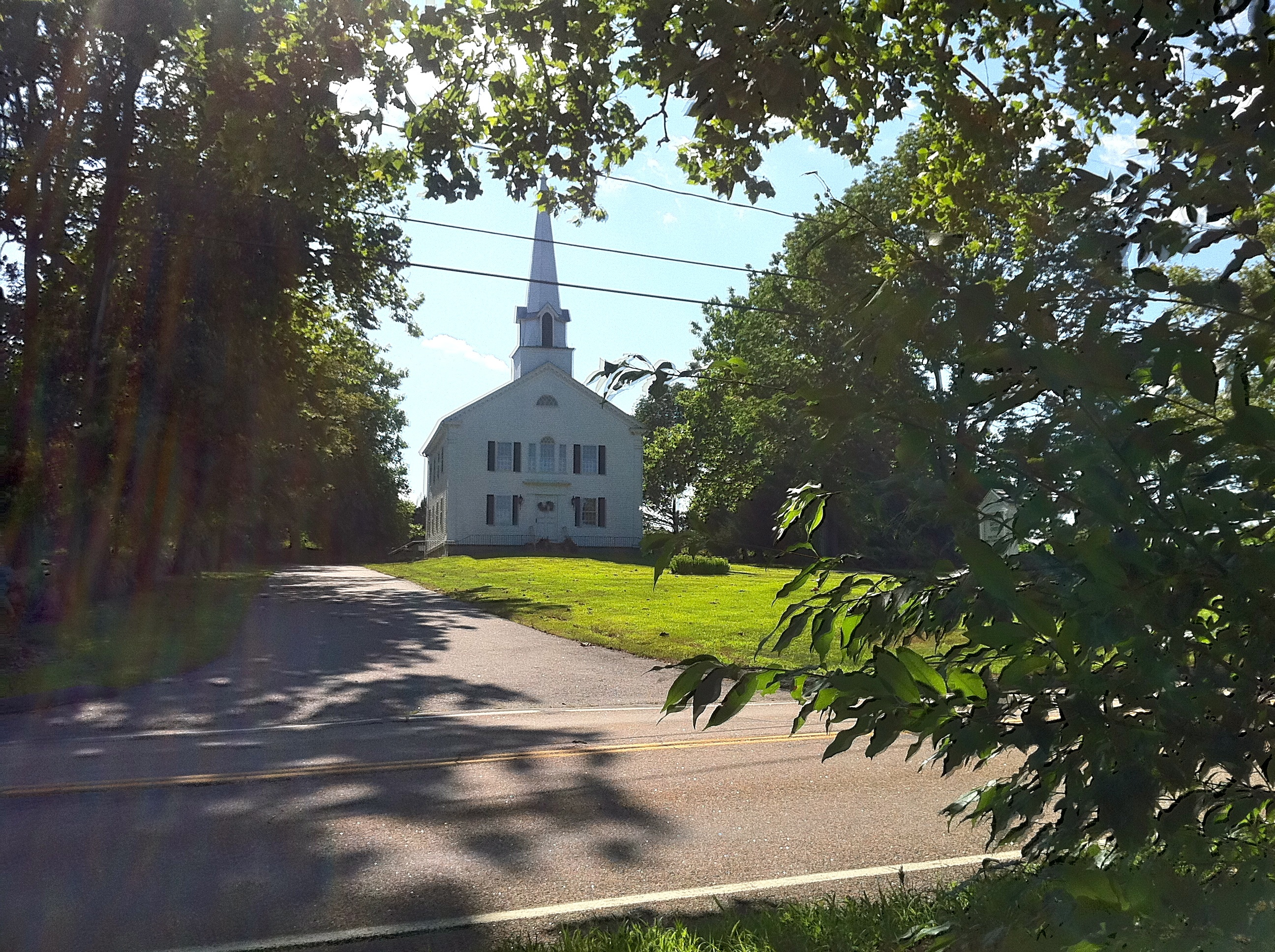 Narragansett Trail - First Baptist Church opposite Groton Sportsman Club land.